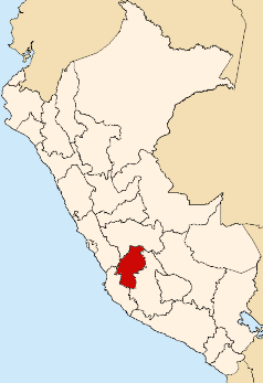 Map showing the location of the Huancavelica region in Peru